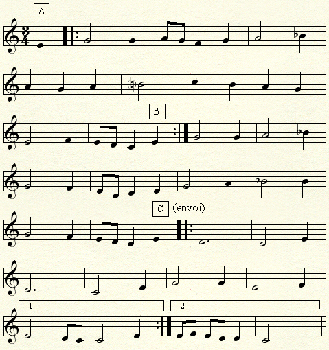 Medieval dance song Kalenda maya (modern transcription)